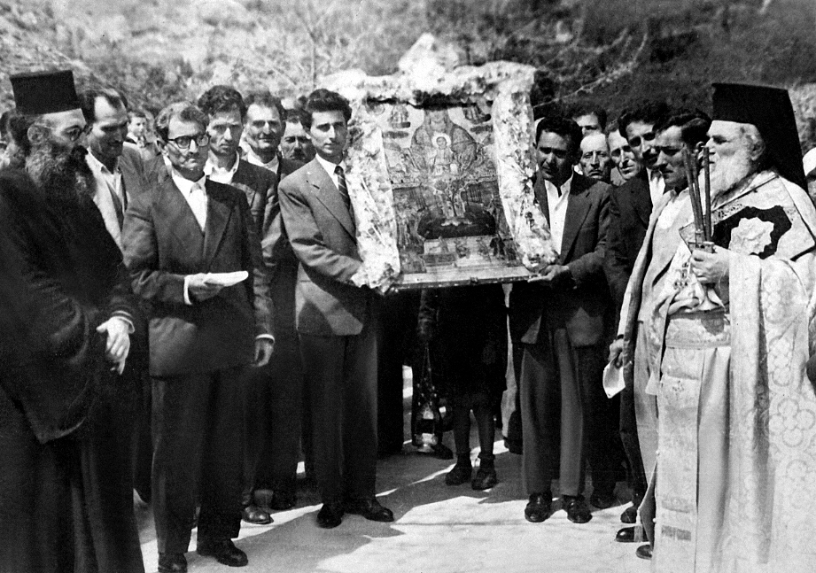 Religious procession on Bright Friday 1959, the feast day of the Theotokos the Life-Giving Spring, at the Church of the Life-Giving Font (Zoodochos Pigi) in the village of Elati, municipality of North Kynouria, Arcadia, Greece.